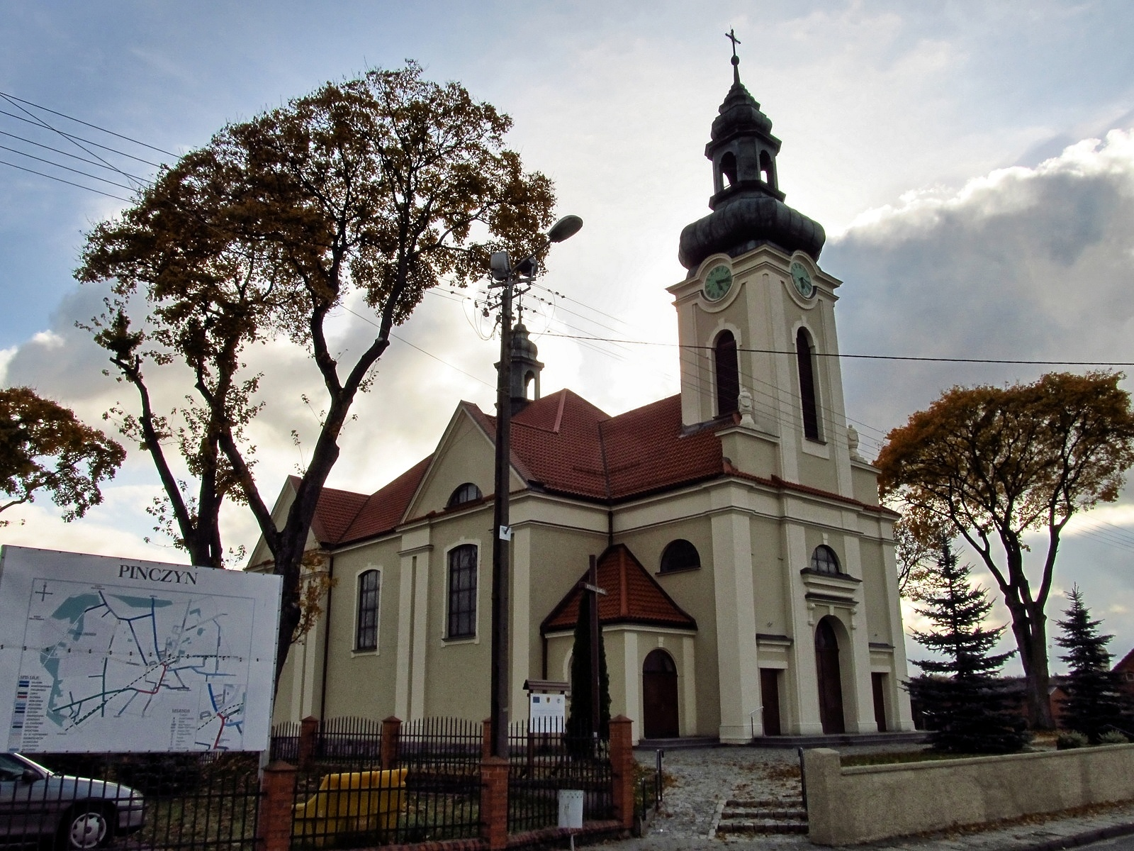 View of the church in Pinczynie